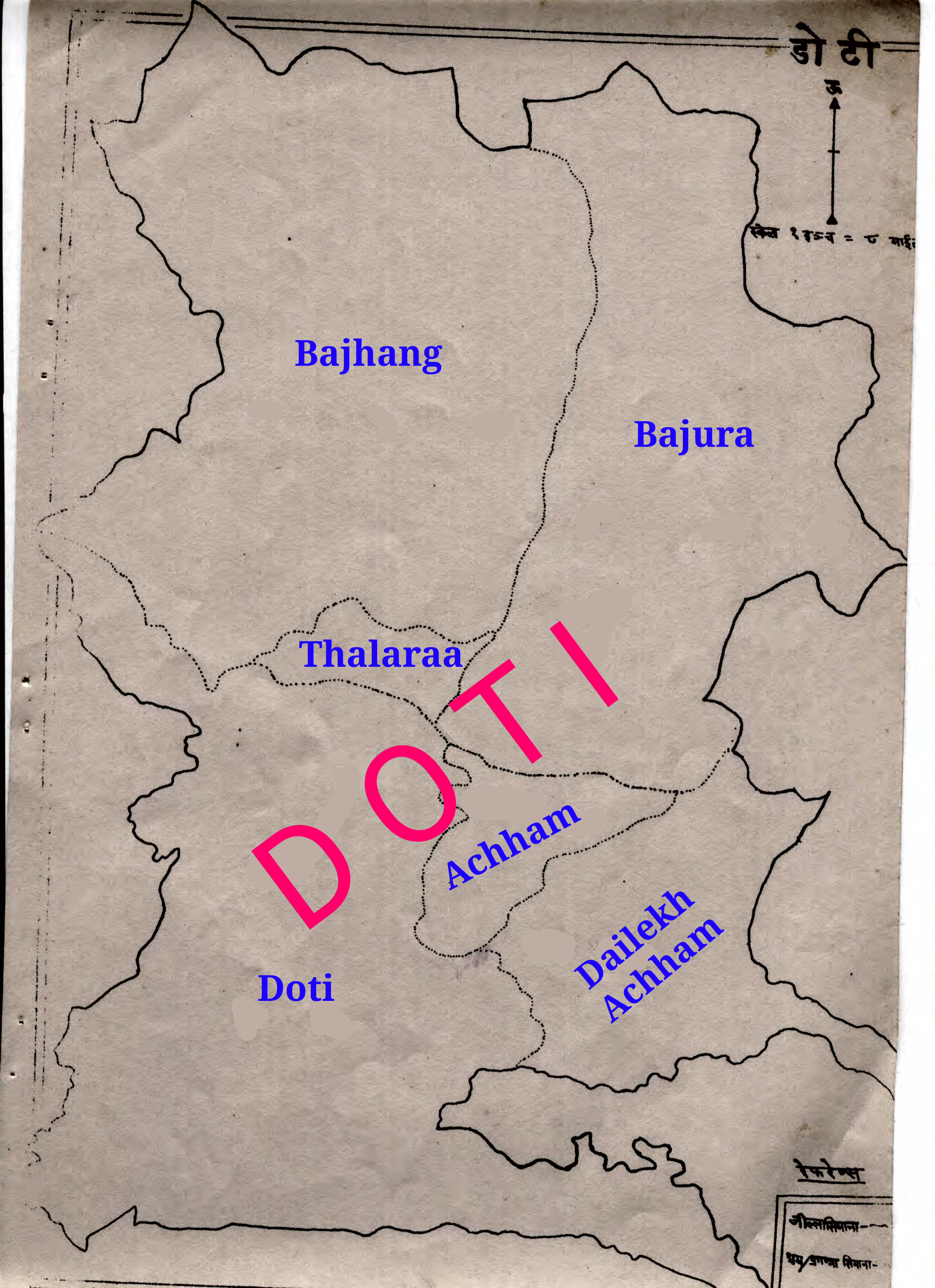 A map of Old Doti